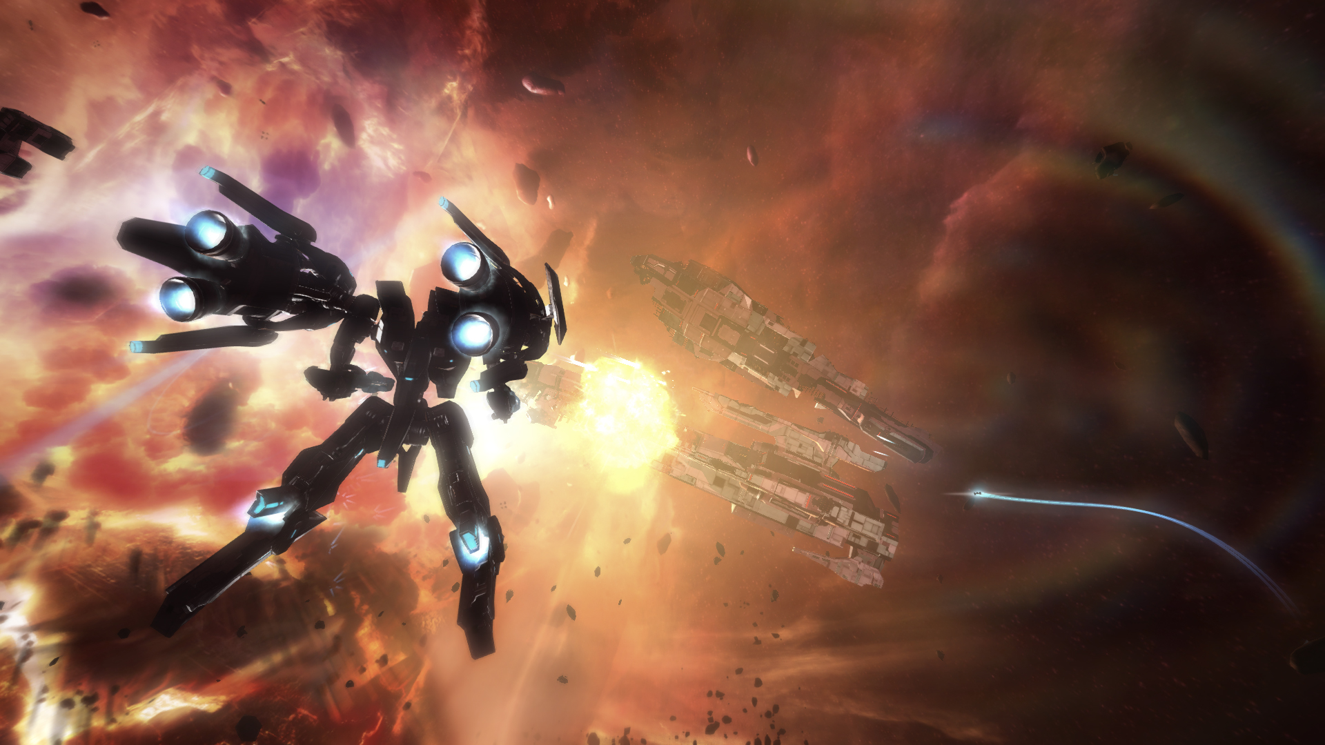 Strike Suit Zero screenshot. Released in 2013, the game was developed by Born Ready Games.